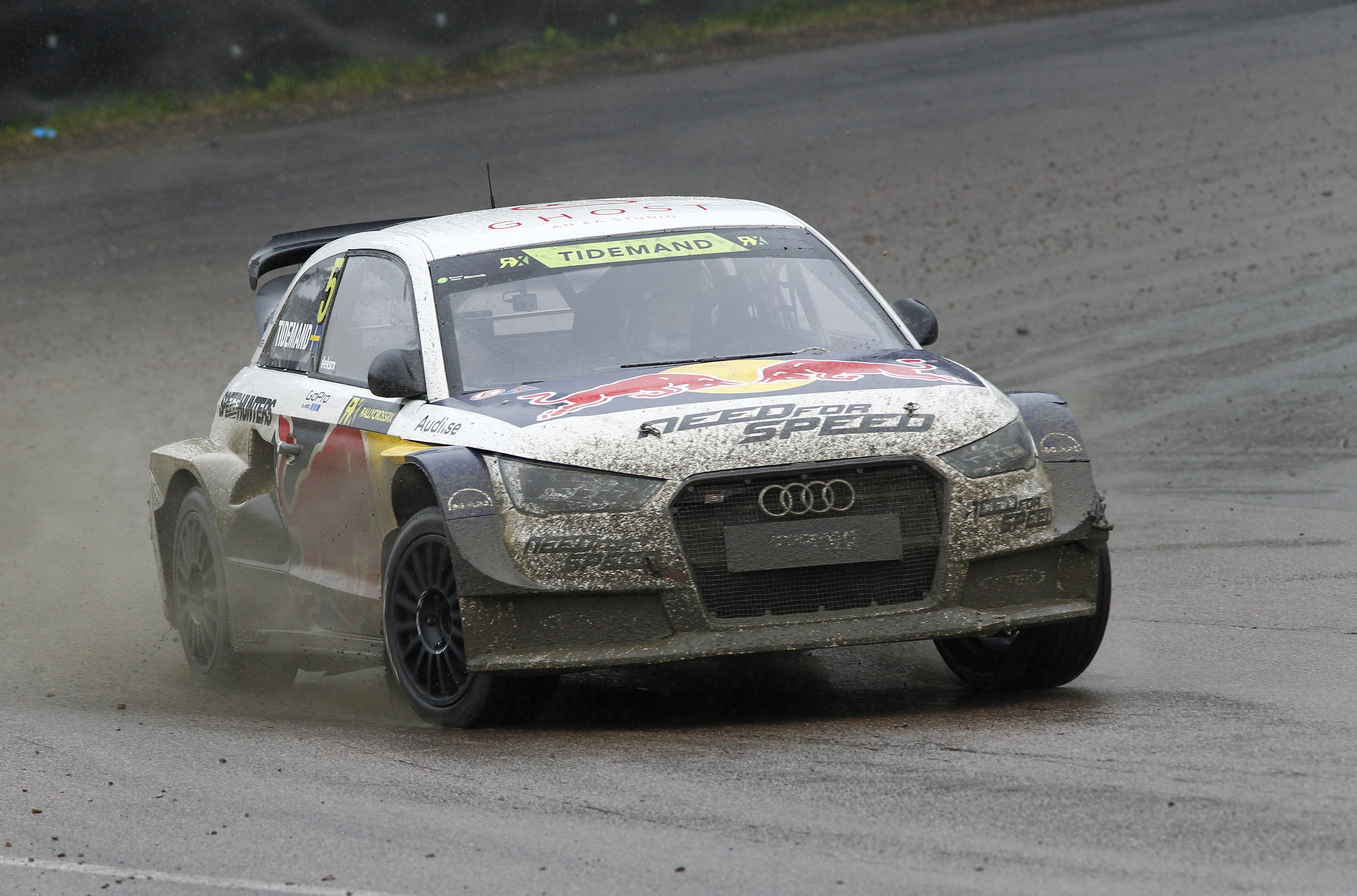 2014 FIA World Rallycross Championship Round 04 Kouvola, Finland 28th & 29th June 2014 Worldwide Copyright: EKS/McKlein